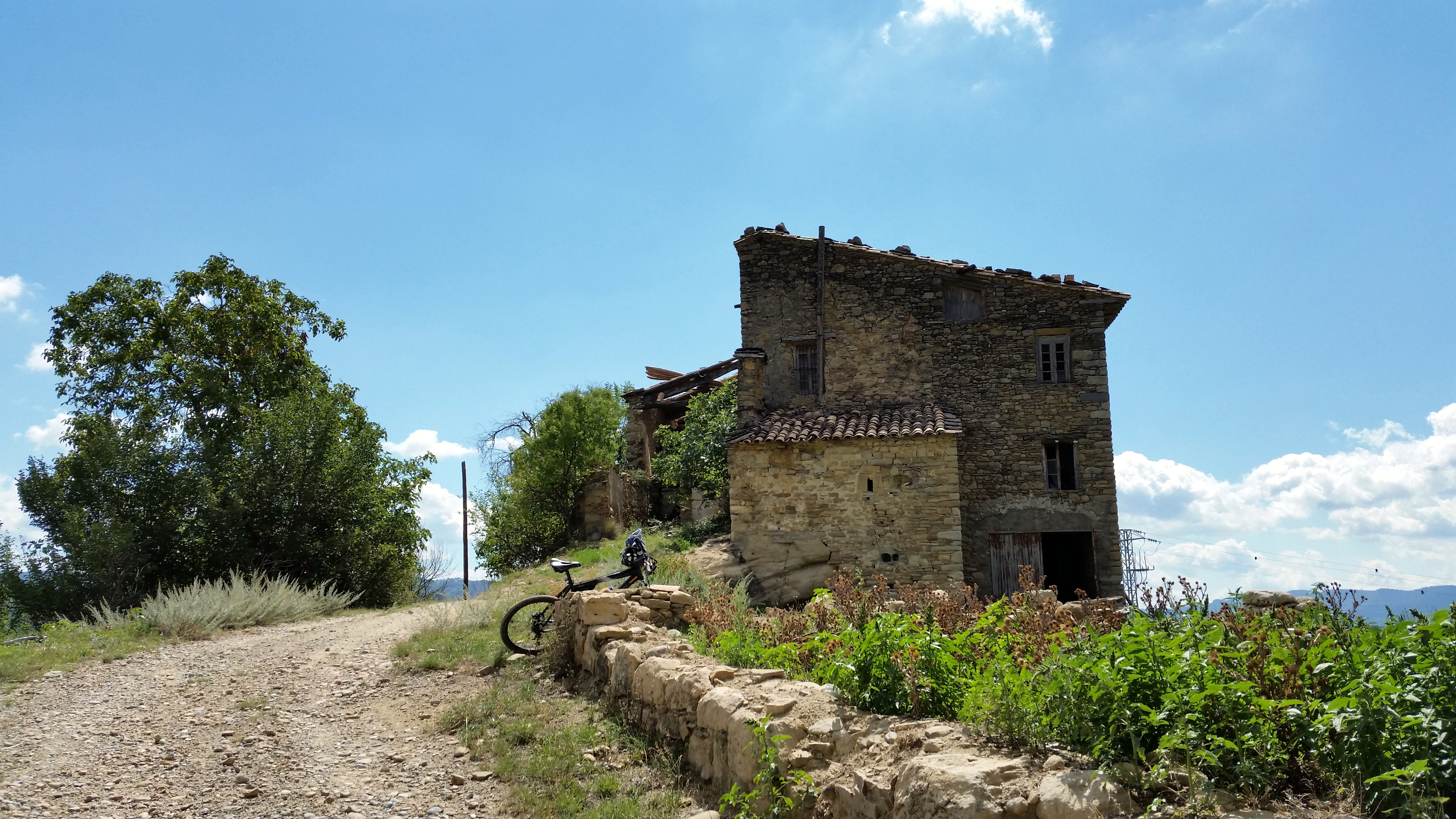 Old House named Casa Campo in the Hamlet of Güel which today is part of the municipality of Graus, Huesca , Spain